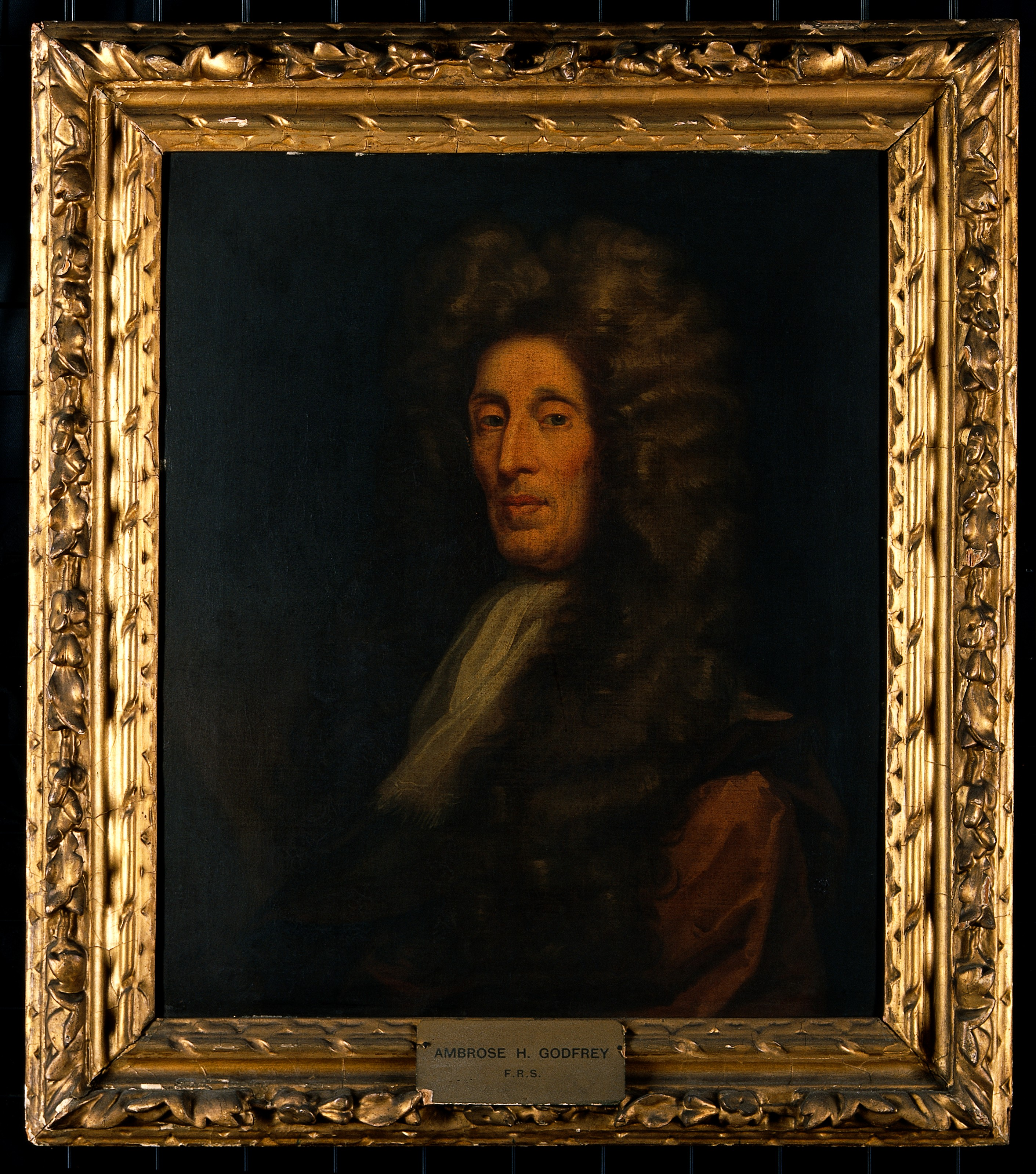 Ambrose Godfrey (Hanckwitz). Oil painting. Iconographic Collections Keywords: Ambrose Godfrey